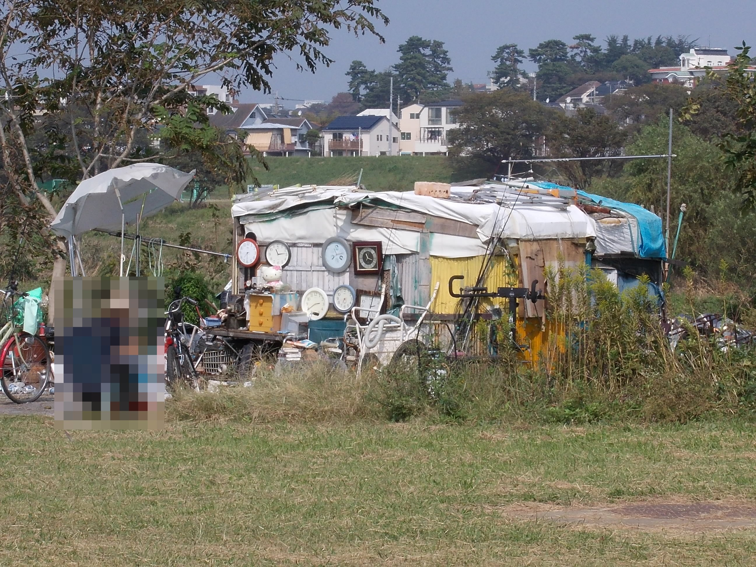 Improvised house between the levees of the Tama river (多摩川)